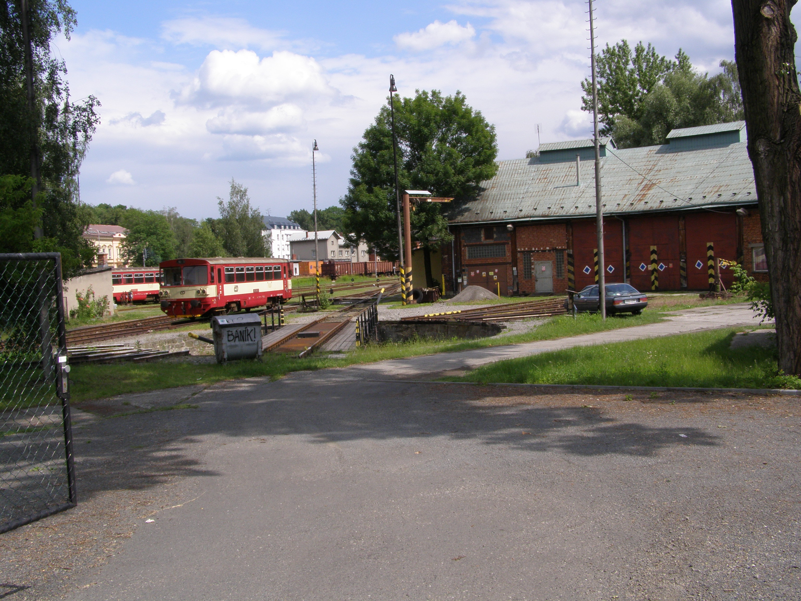 Frýdek-Místek, railway station